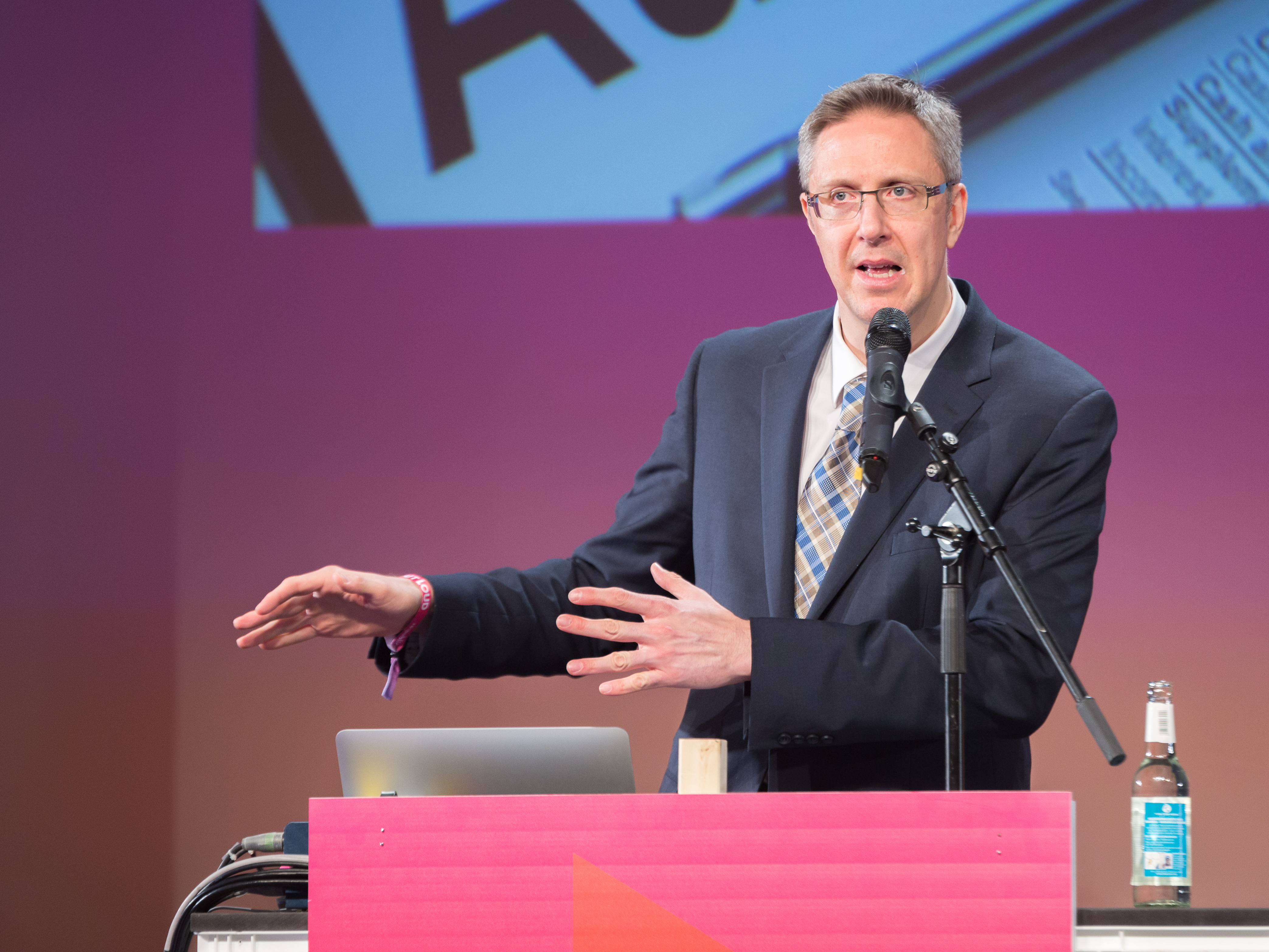 Harvard professor Frank Pasquale at the Re:publica 17